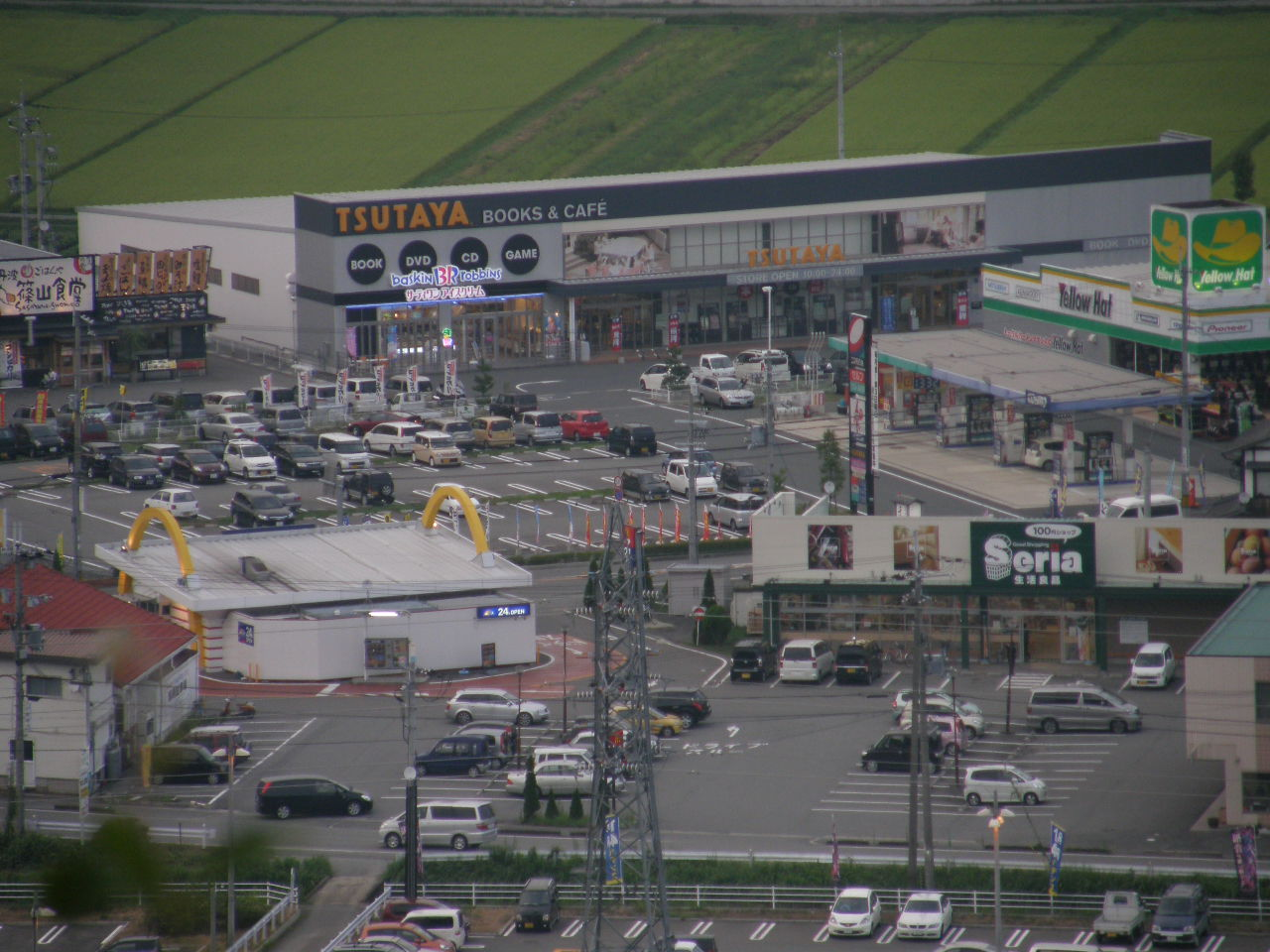 Franchising(Fujio food system,ccc,YELLOW HAT LLC,Seria,McDonald's Company (Japan)